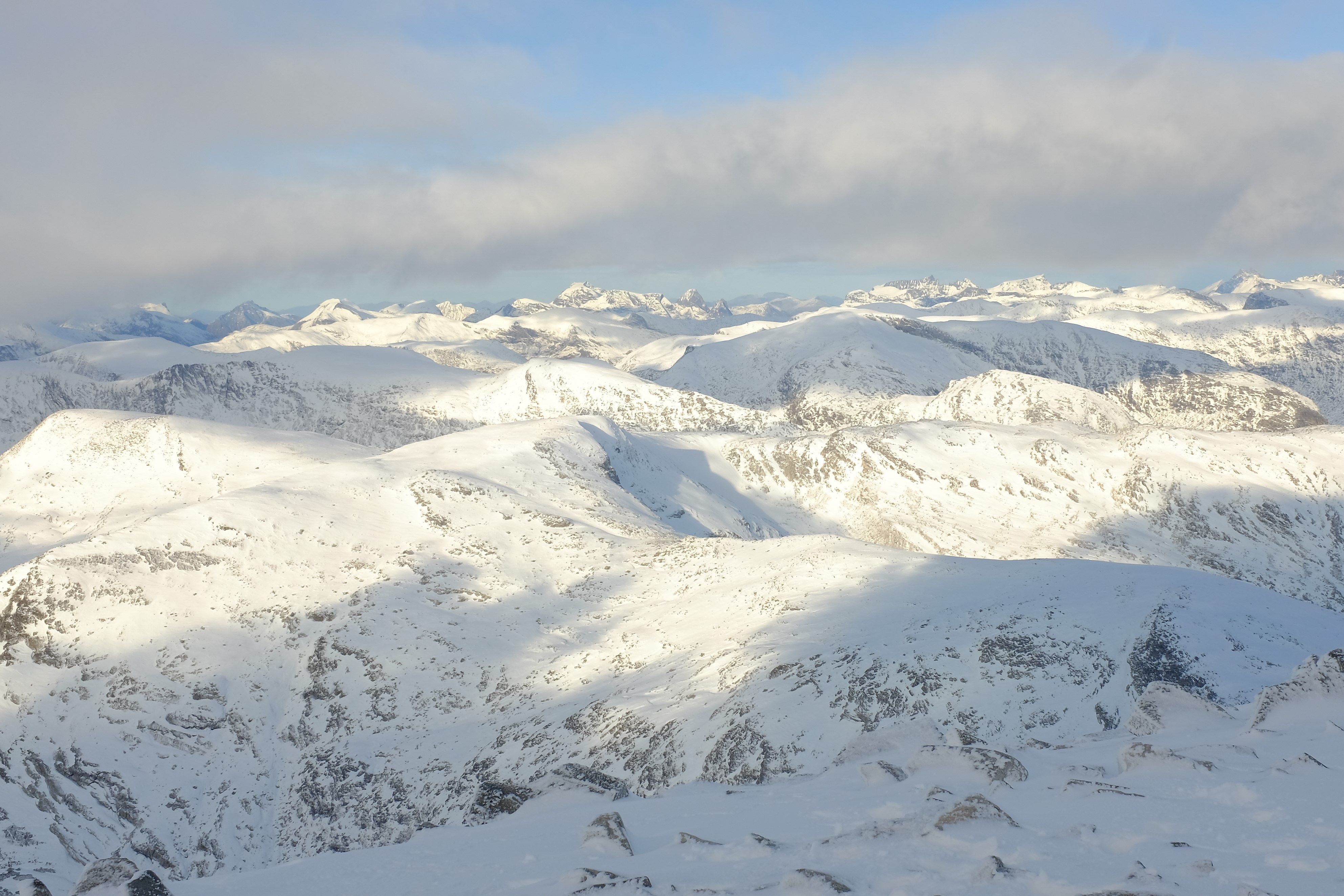 Montains in Reinheimen National Park in Norway. The national park that was established in 2006. The park consists of a 1,969-square-kilometre (760 sq mi) continuous protected mountain area. It is located in Møre og Romsdal and Oppland counties in Western Norway.